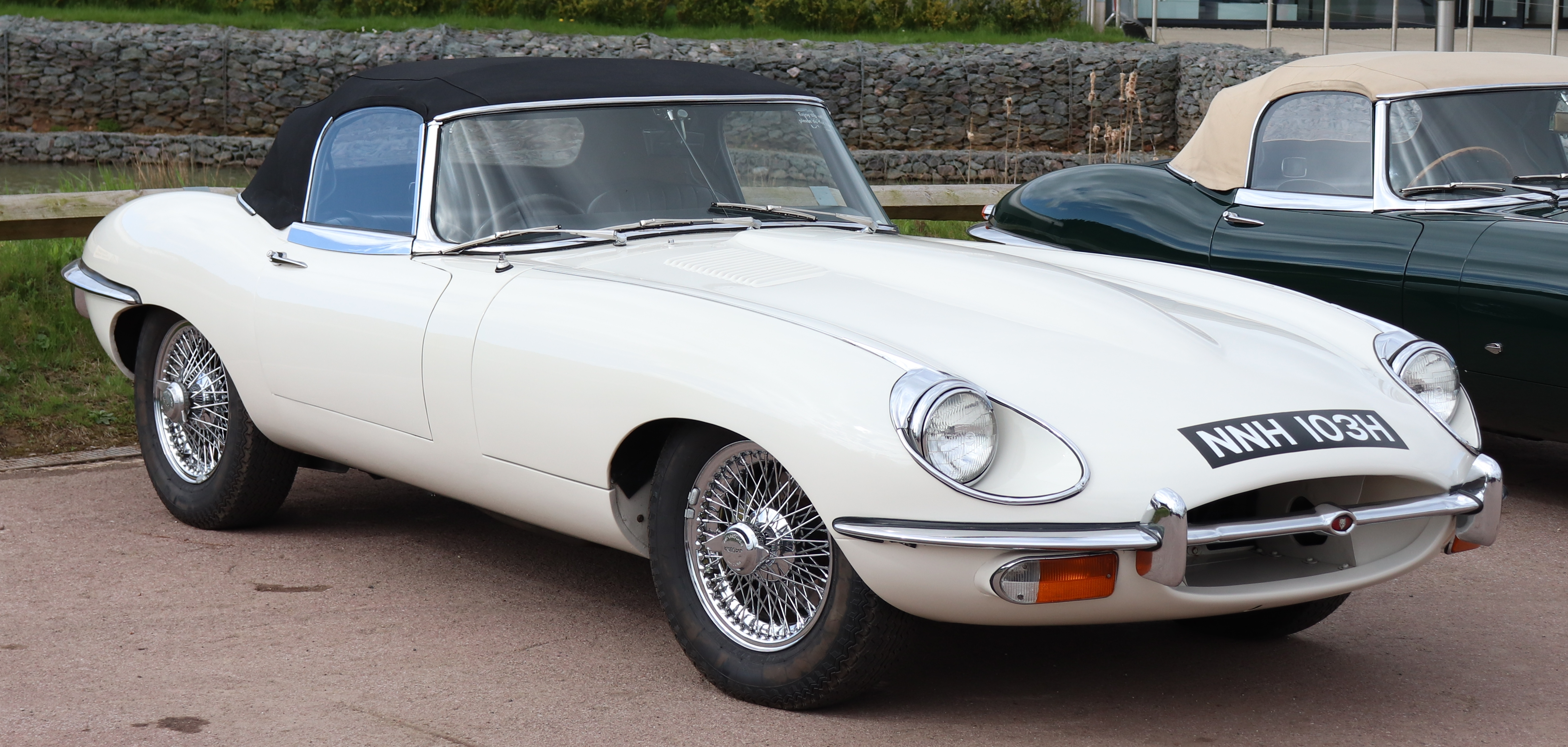 1970 Jaguar E-Type Roadster 4.2 Taken at the British Motor Museum, Gaydon